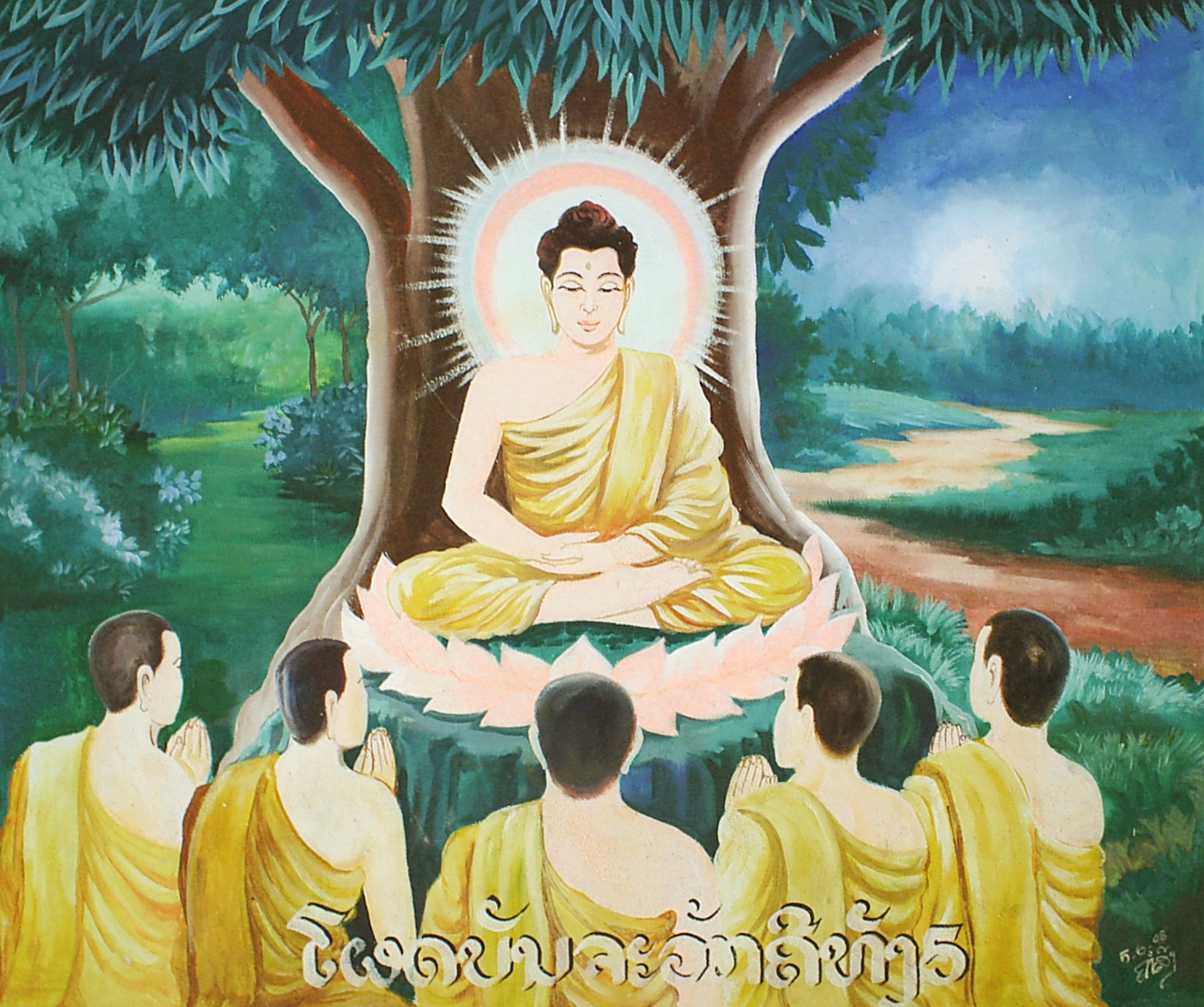 Painting of the first teaching Buddha Gautama gave after his enlightenment, at the Deer Park in Sarnath, India (close to Varanasi). The five monks in the foreground are his five old friends, who suspected that Buddha would attain enlightenment and stayed close to him, but subsequently lost faith in him when he abandoned the practice of extreme asceticism, just before his attainment of enlightenment. The teaching he gives here is most probably the Dhammacakkapavattana Sutta.